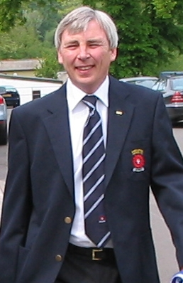 Taken by firefoxx66 (uploader) 29 May 2005 (Playoffs at Cardiff)